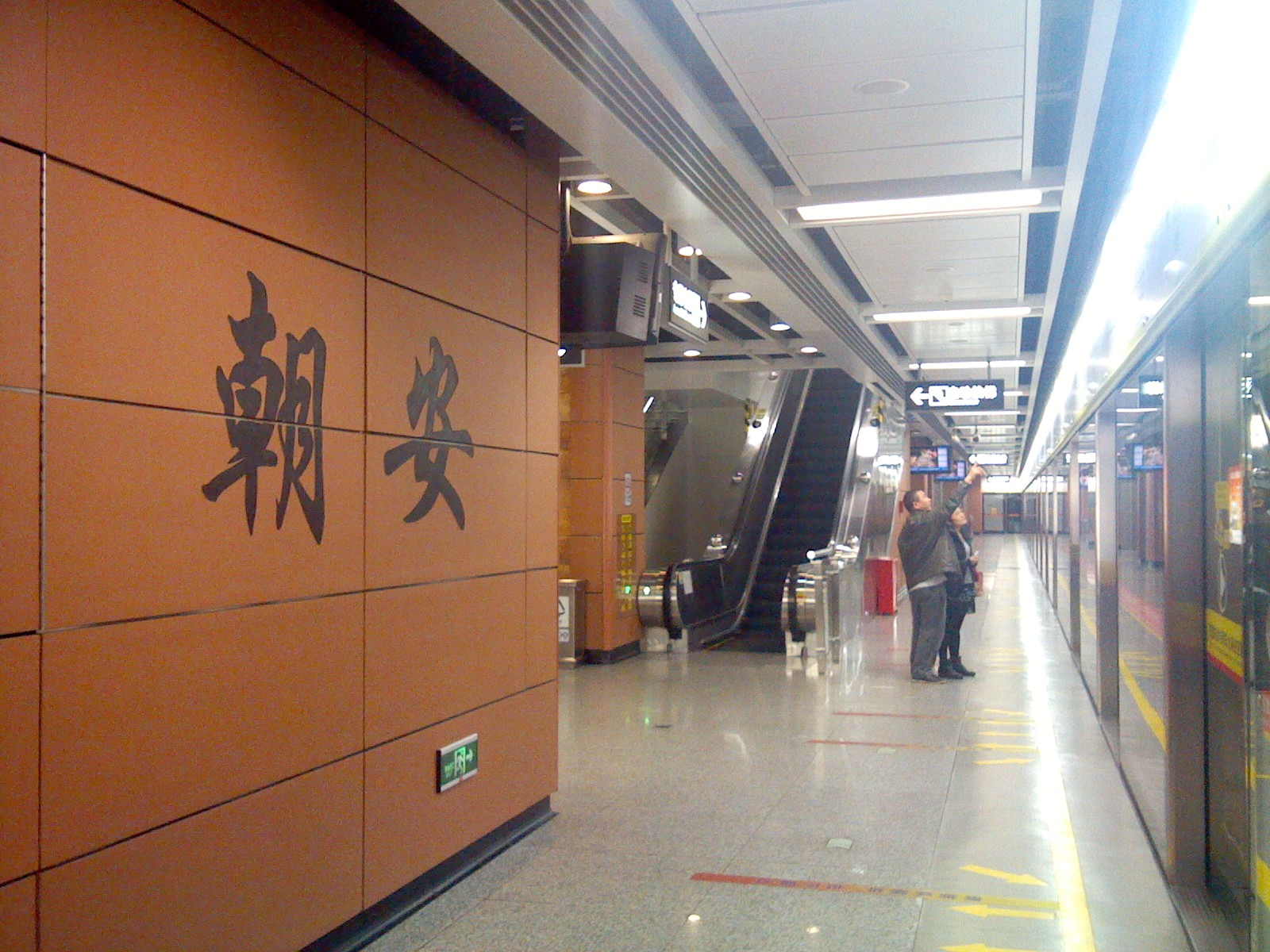 车站月台（魁奇路方向）